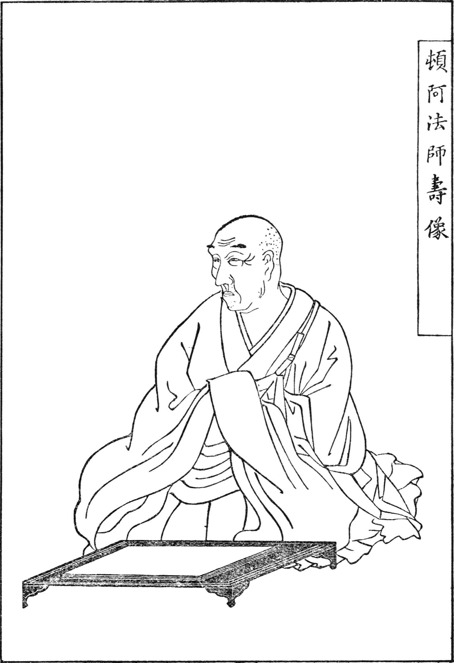 Portrait of Ton'a (or Tonna)